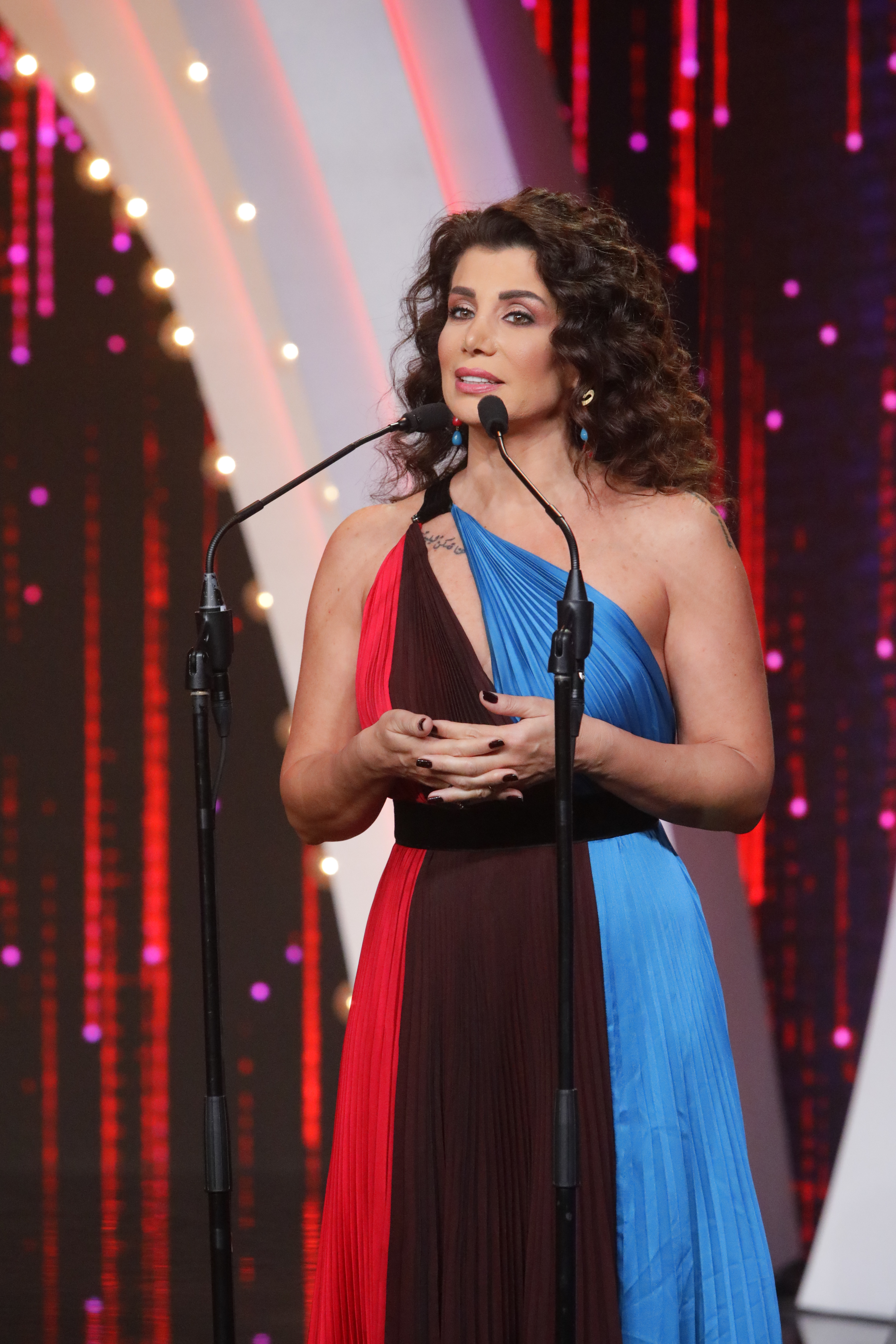 This is a recent portrait of author and activist Joumana Haddad